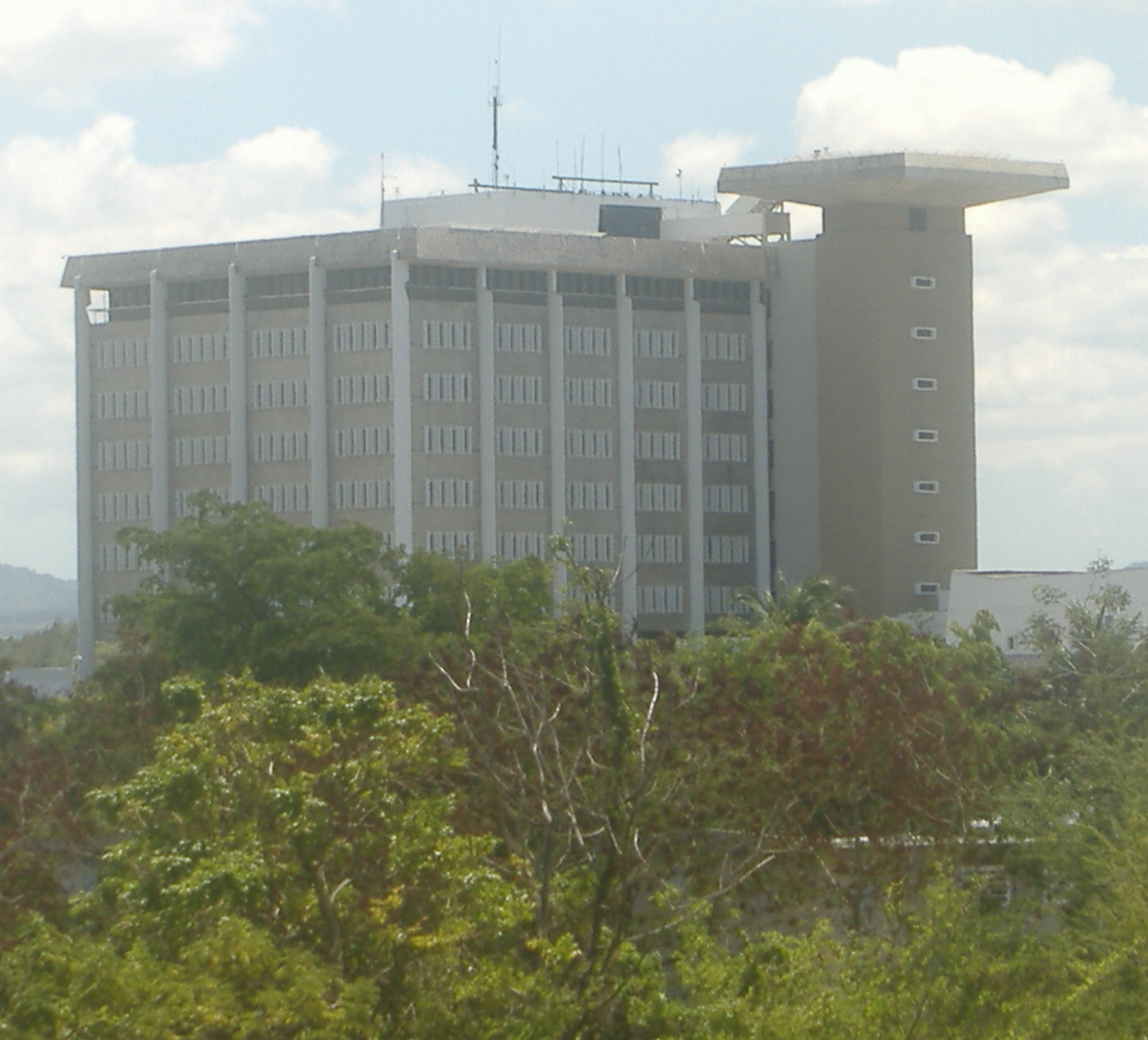 Picture of Puerto Rico Police Headquarters in San Juan, Puerto Rico, April 2007.